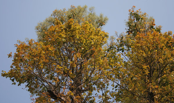 Sal Shorea robusta at Jayanti in Buxa Tiger Reserve in Jalpaiguri district of West Bengal, India.